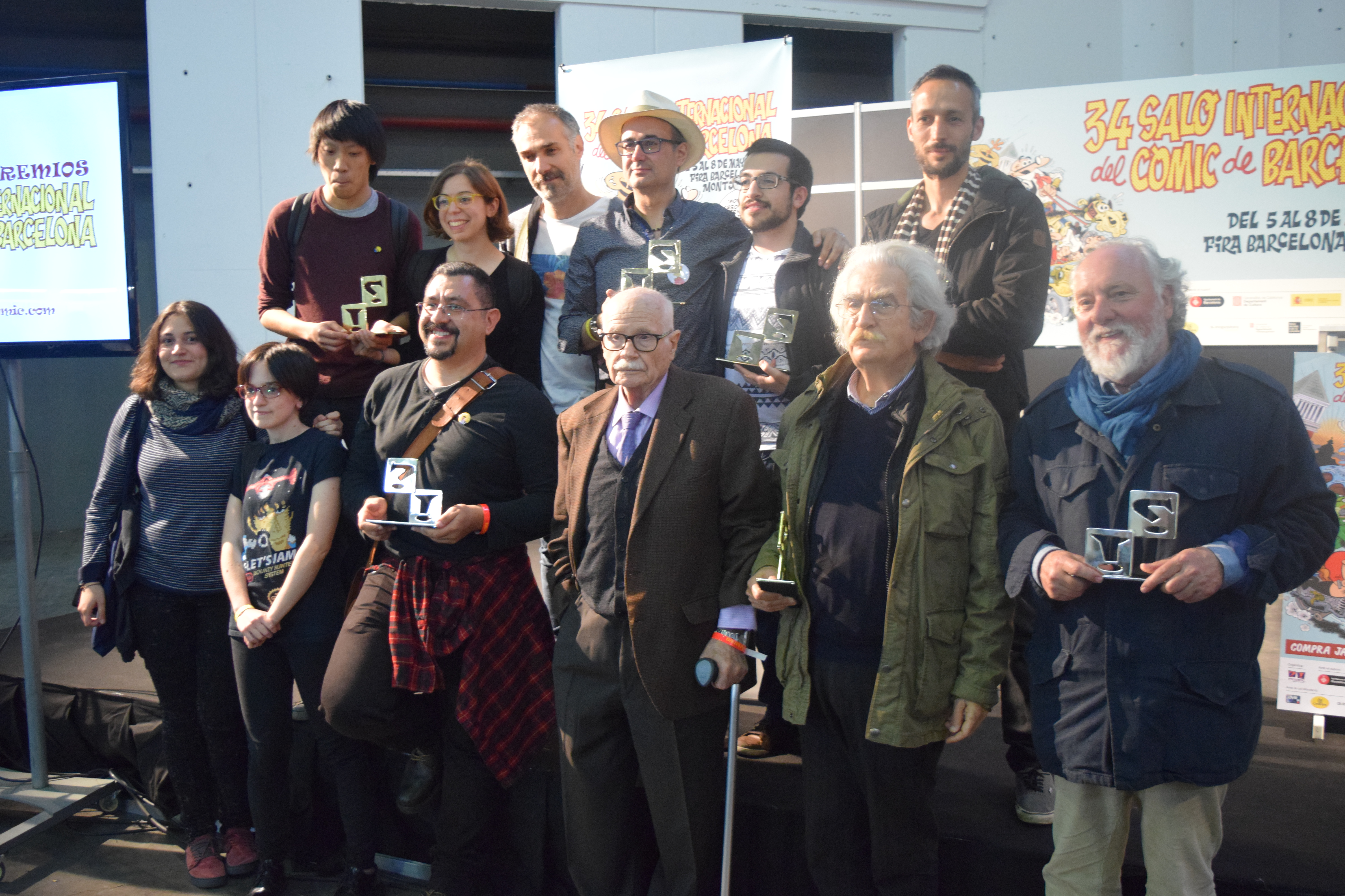 All the awarded artists at the 34th edition of the Barcelona International Comic Convention. From left to right: 4 autors del fanzine Nimio, El Torres, Jesús Alonso Iglesias, Ricardo Esteban (director de Dibbuks), Josep Maria Blanco Ibarz, Javi de Castro, Paolo Eleuteri Serpieri and Lele Vianello, among others. Barcelona Internacional Comic Convention. Friday 6 may 2016.